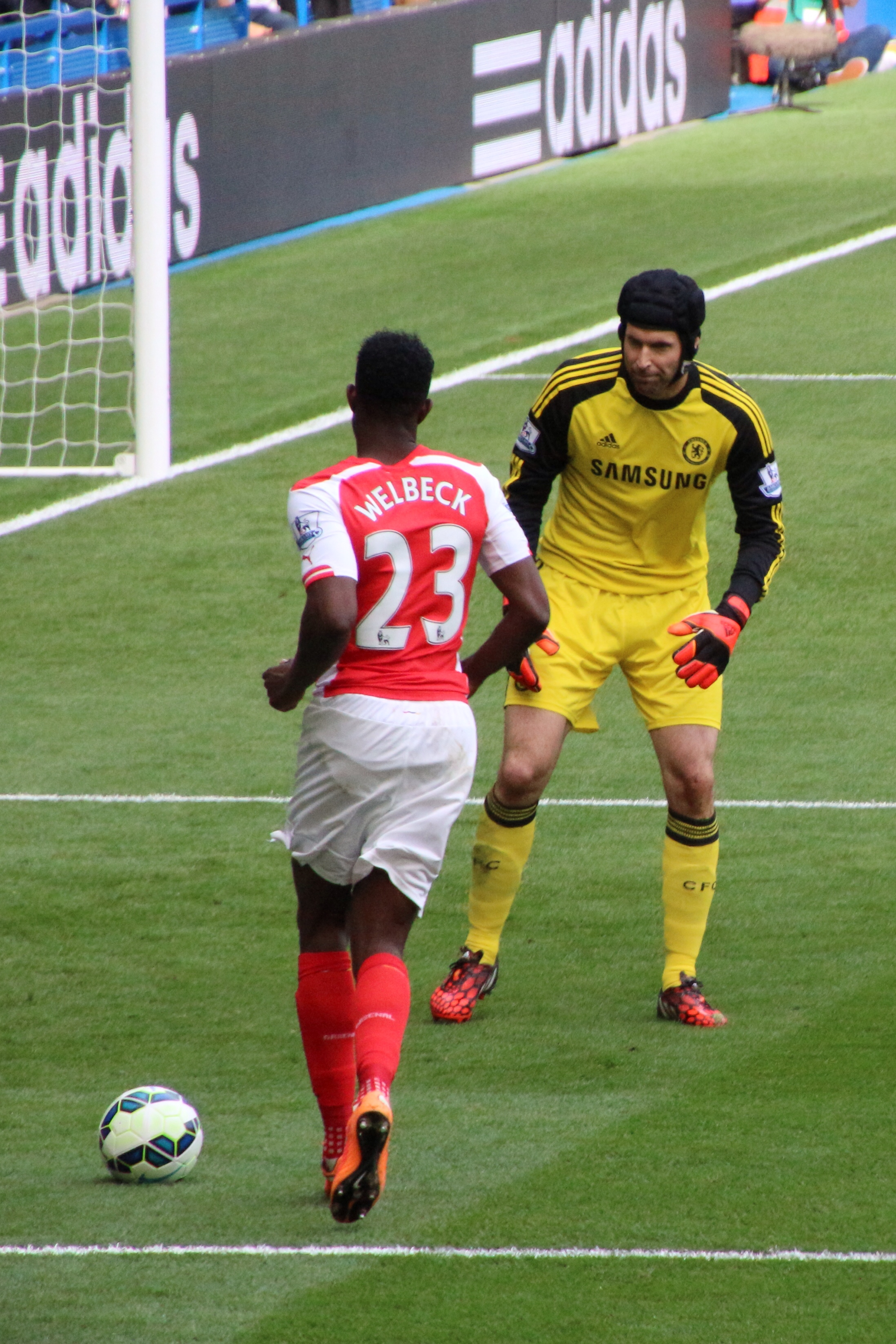 Premier League match between Chelsea and Arsenal at Stamford Bridge on 5 October 2014.